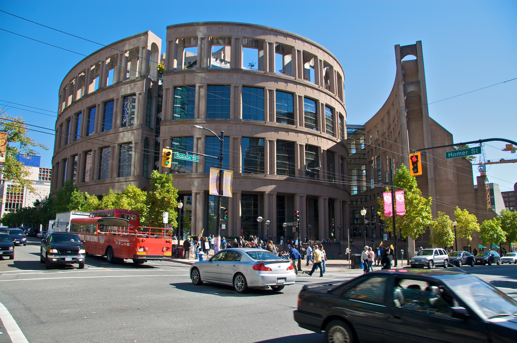 Shot of Vancouver's Library along Robson street.